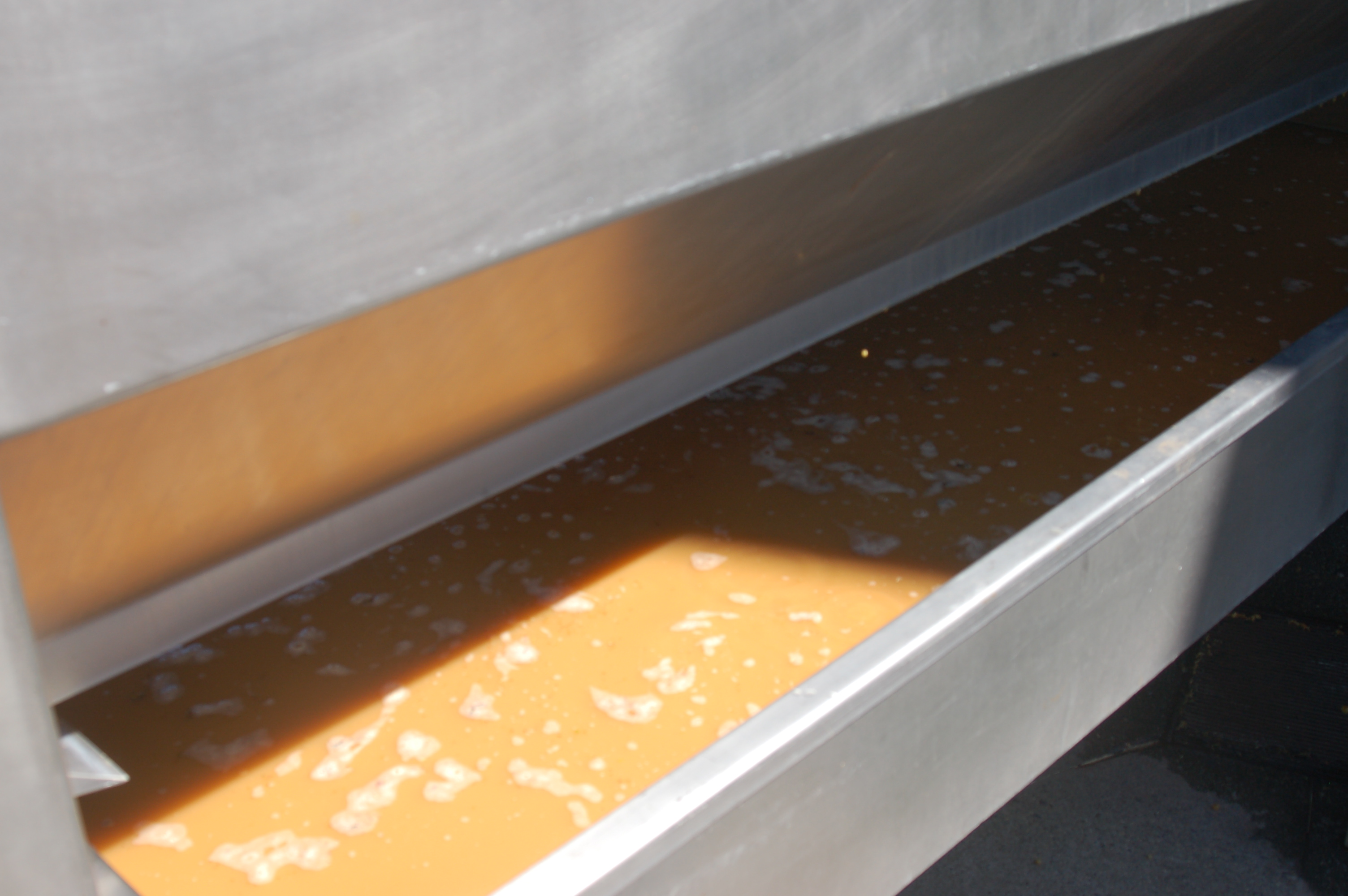 Unfermented grape must from Pride Mountain Winery in the collection bin of a bladder wine press.